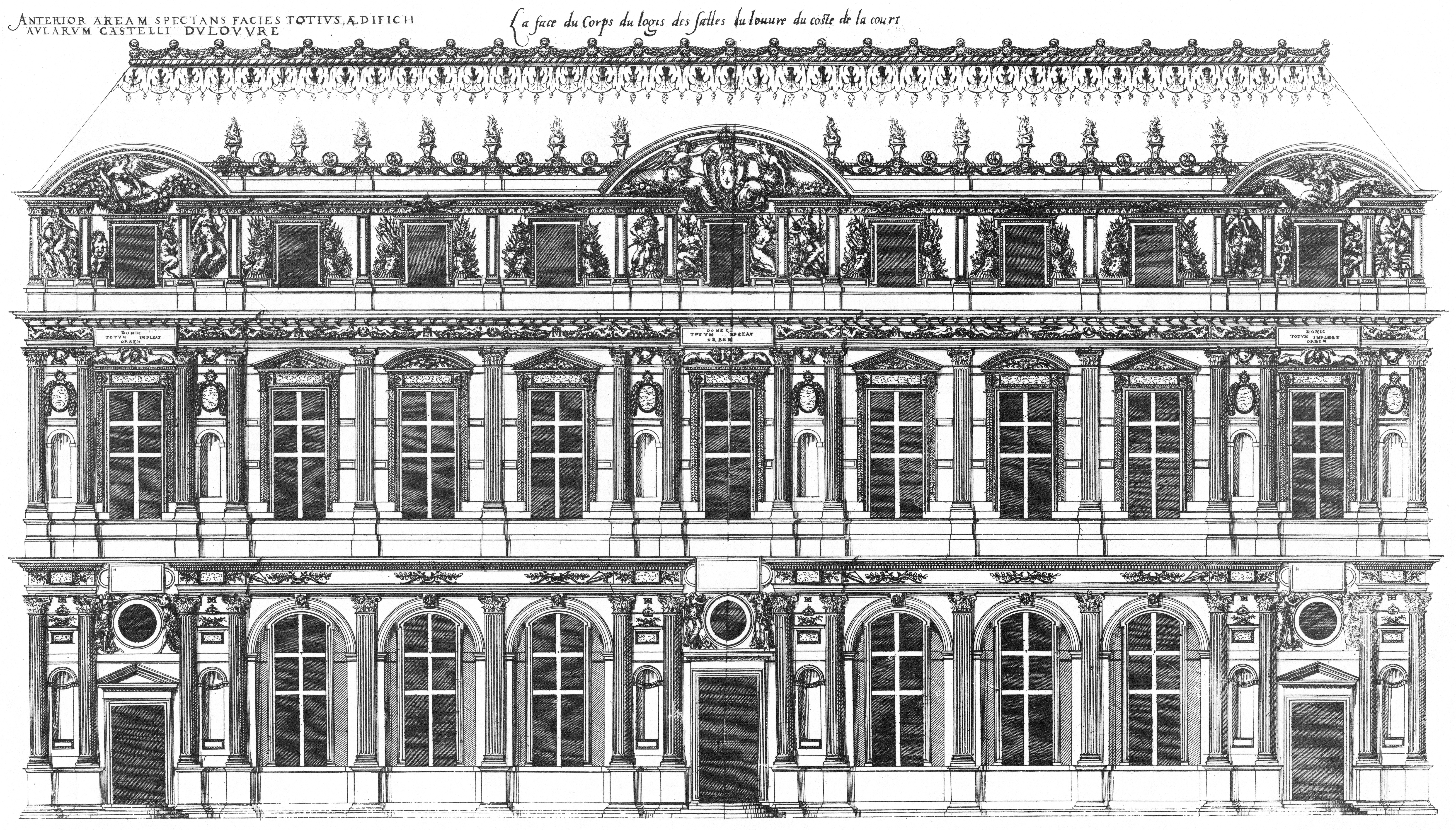 Engraving from Le premier volume des plus excellents Bastiments de France by Jacques I Androuet du Cerceau, showing the the court facade of the west wing (Aile Lescot) of the Louvre Palace